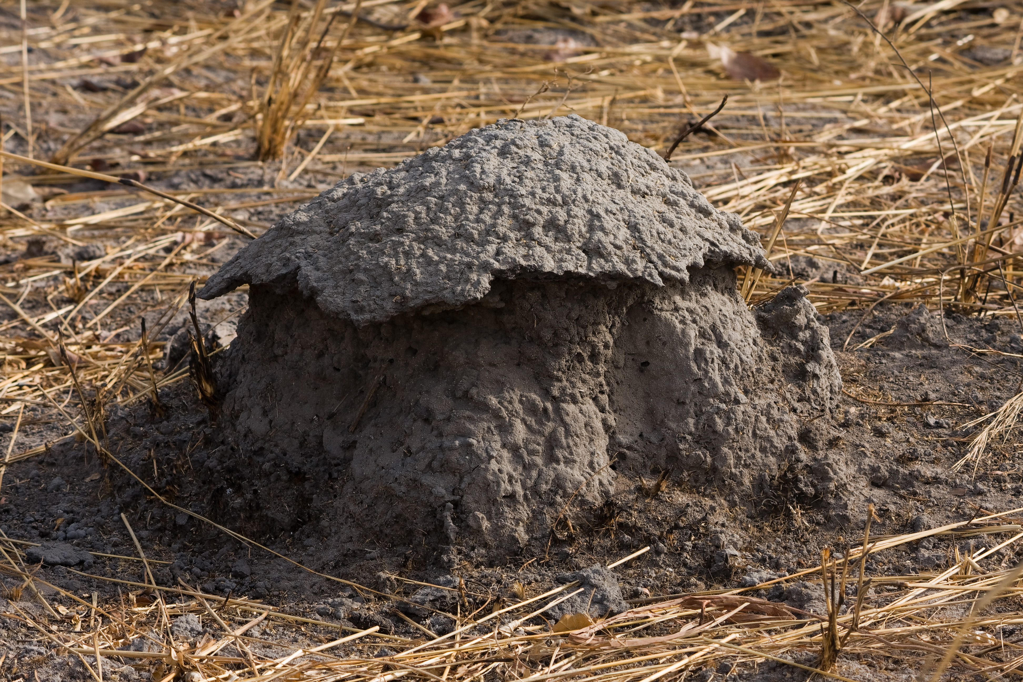 Ant-hill in Kiang West National Park